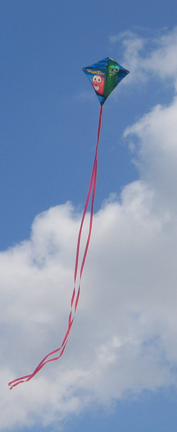 A picture I took of a simple, cheap geometric kite with a tail. (Yes, it is a Veggietales kite.) --Douglas Whitaker 18:48, 25 July 2006 (UTC)